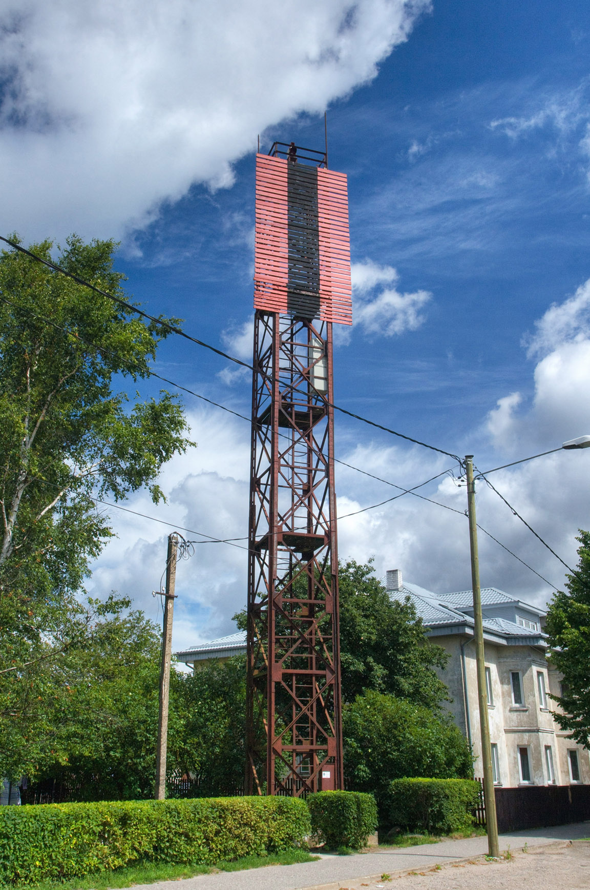 Silla rear light beacon